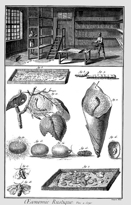 Picture from the Encyclopédie of Diderot & D'Alembert under "Silk" (soie).